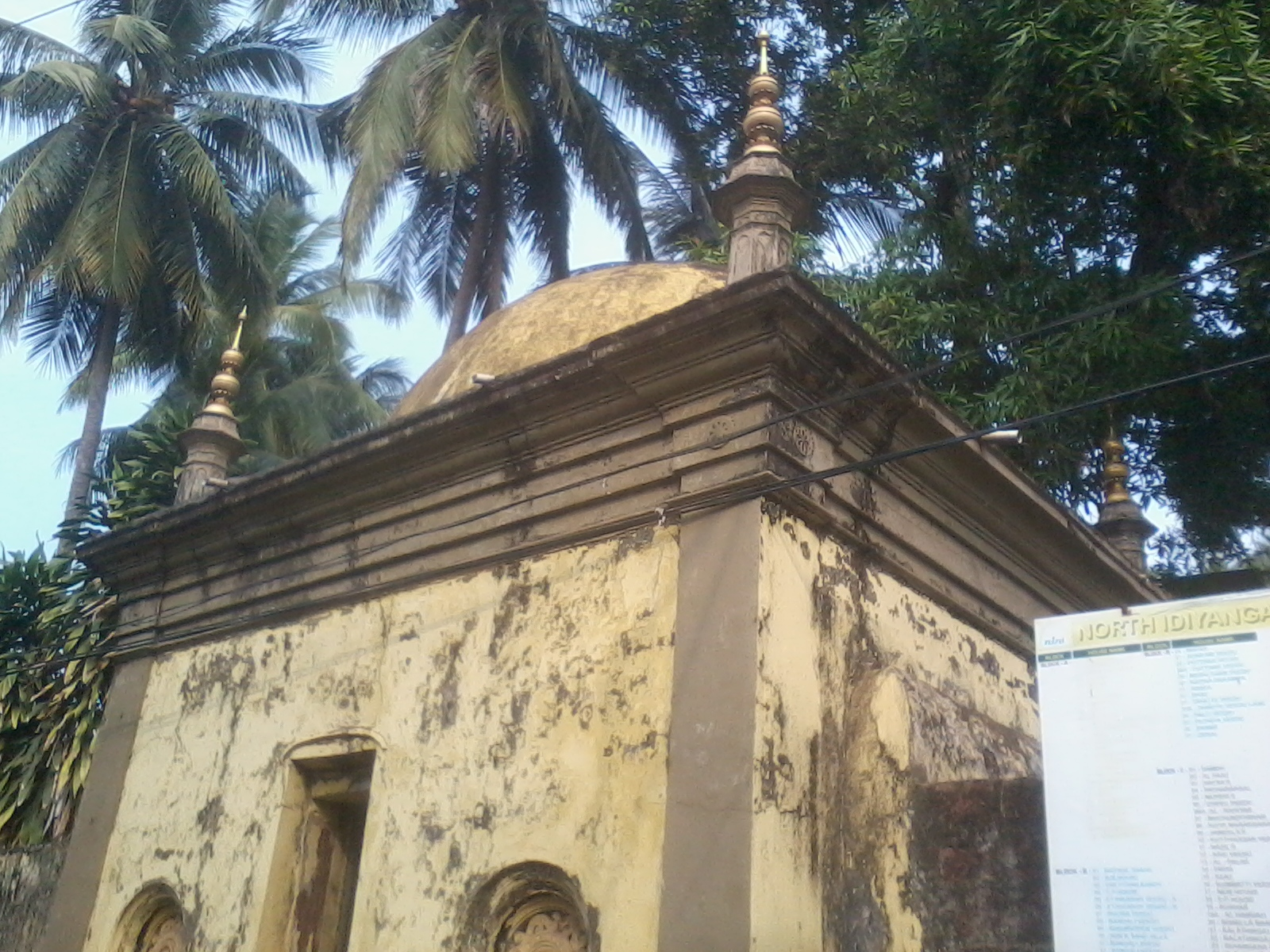 Hyderoos Maqam elevation view